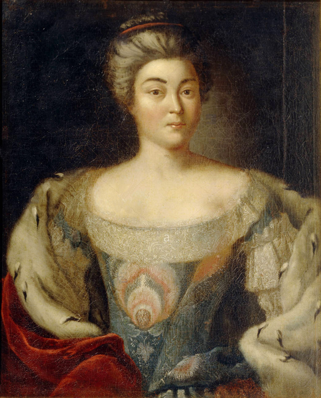 Princess Alexandra Kurakina, née Panina (1711-1786)